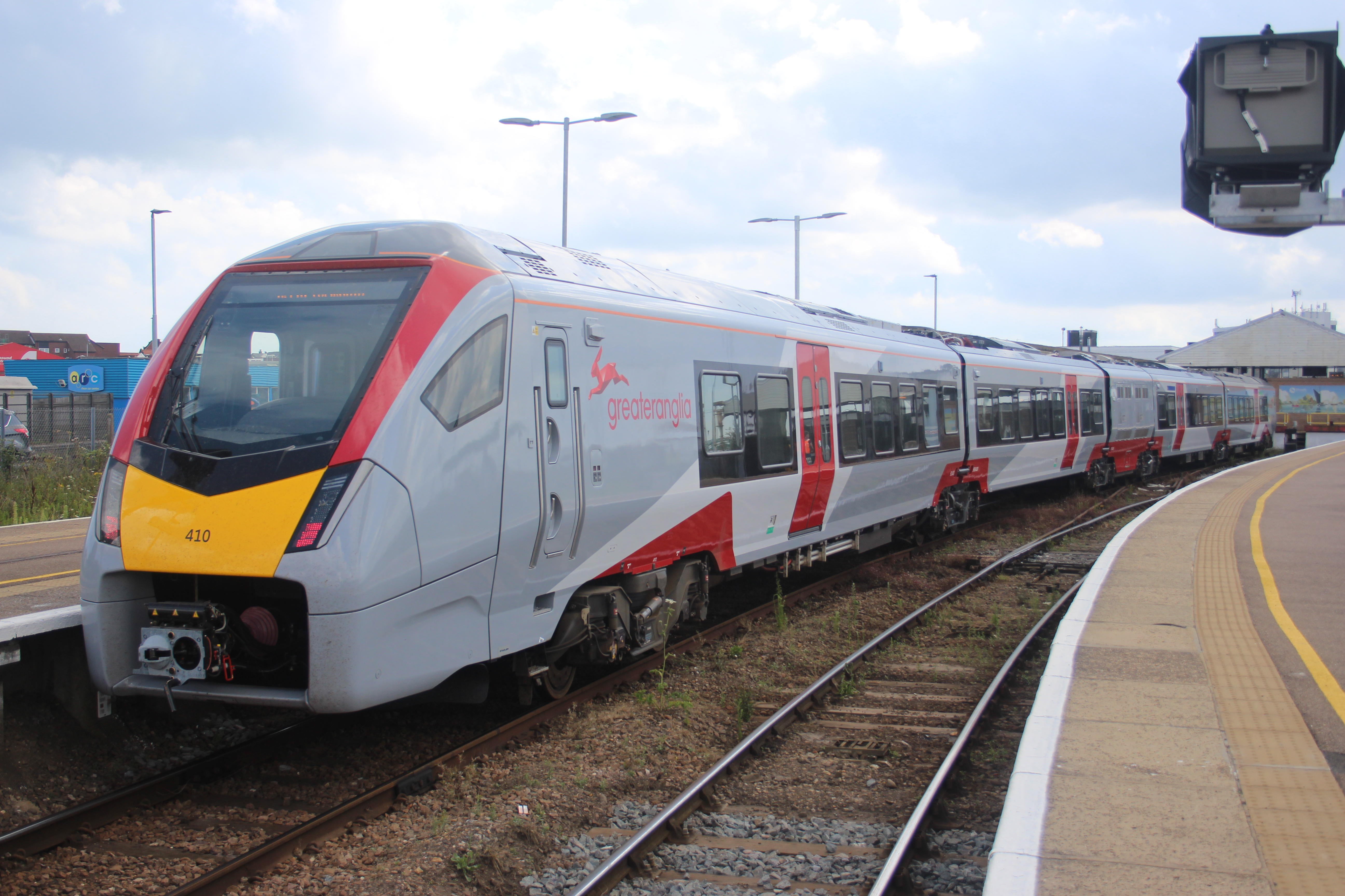 A new Greater Anglia four car Stadler FLIRT unit at Great Yarmouth.